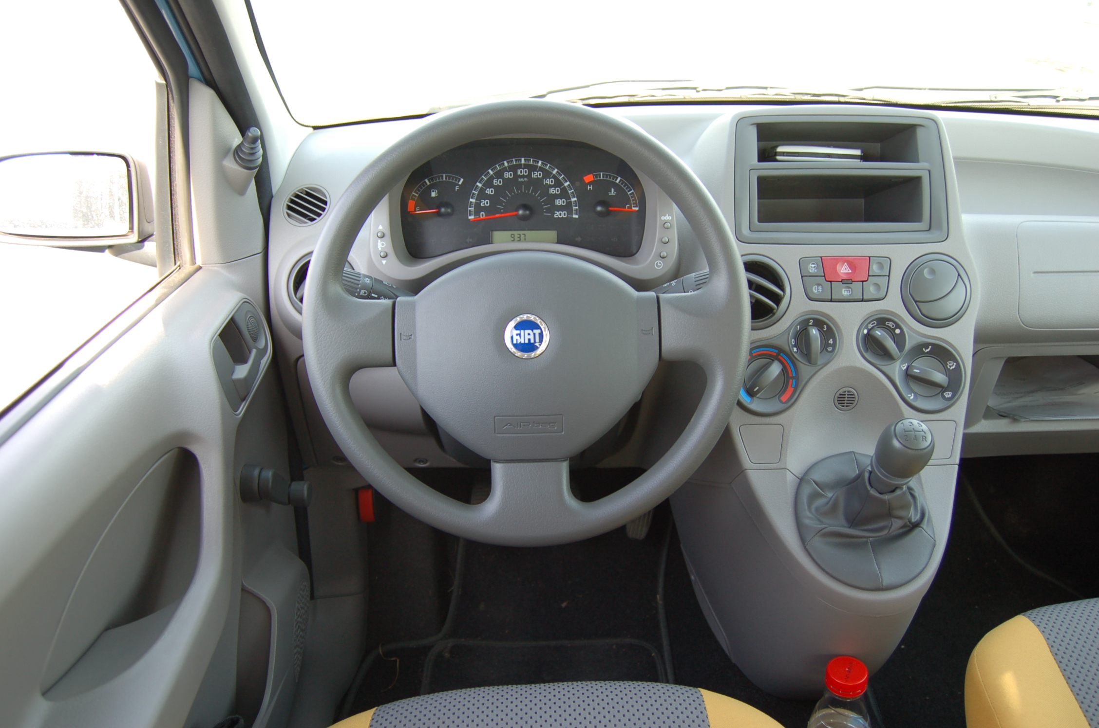 Fiat Panda II